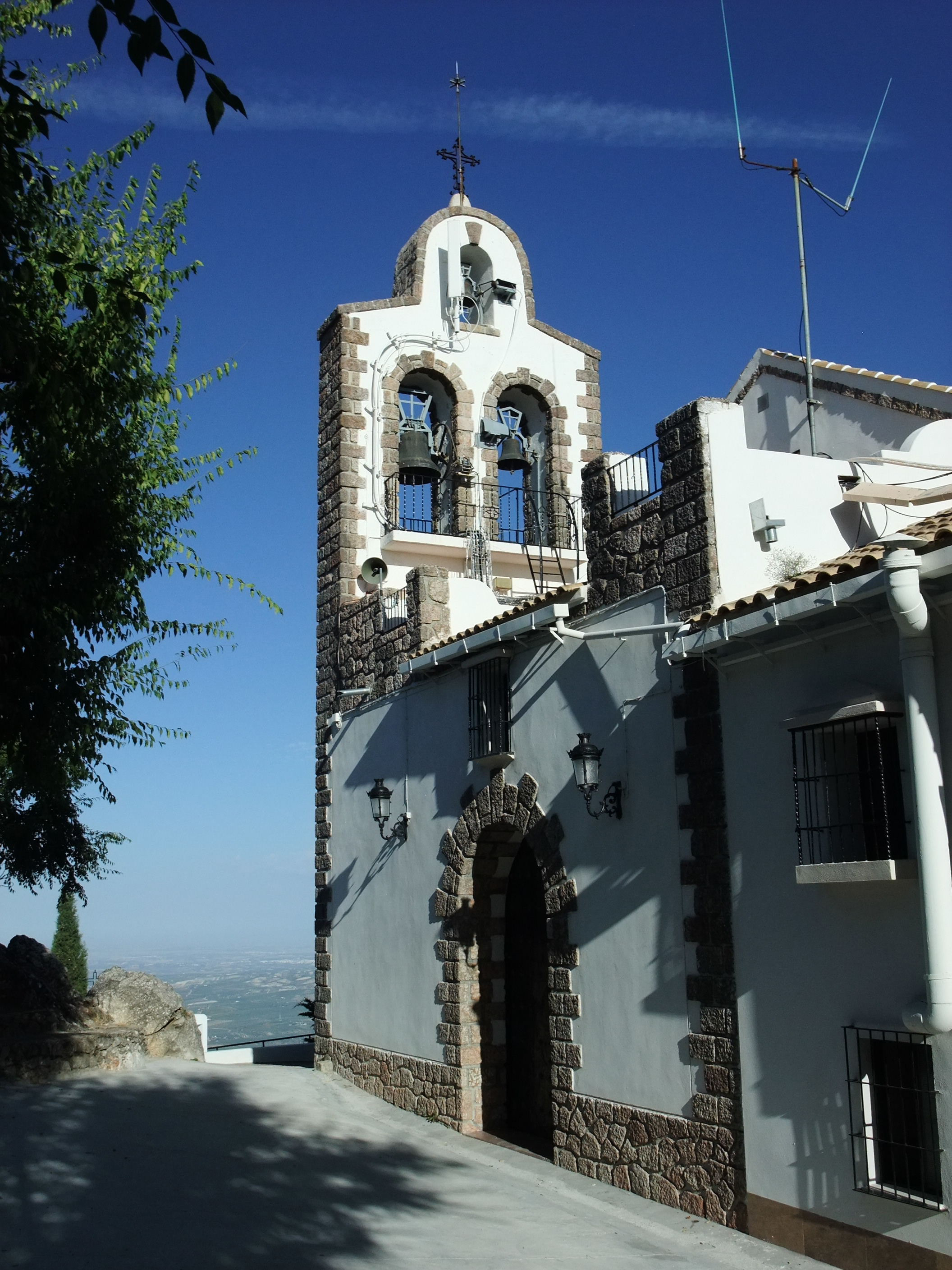 Chapel Virgen de la Sierra near Cabra, Province Córdoba, Spain